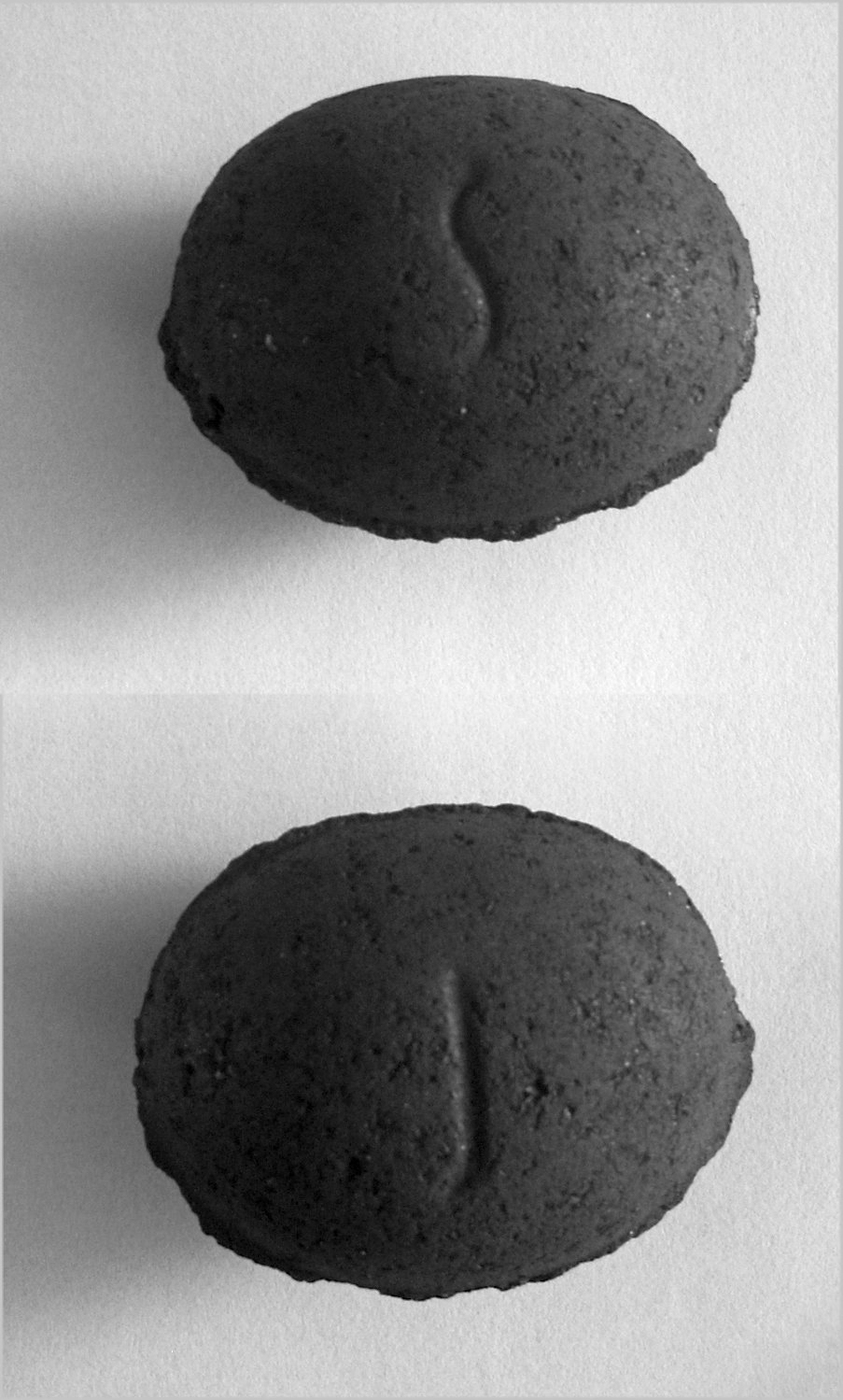 Anthracite Coal Briquette (front and back) from former Coal Mine Sophia-Jacoba Huckelhoven Germany